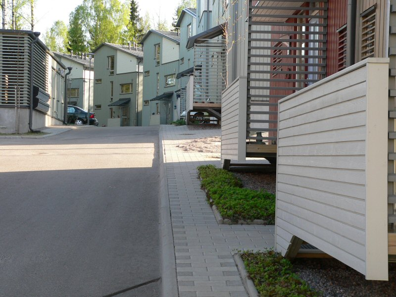 Lehtovuori, Konala, Helsinki, Finland